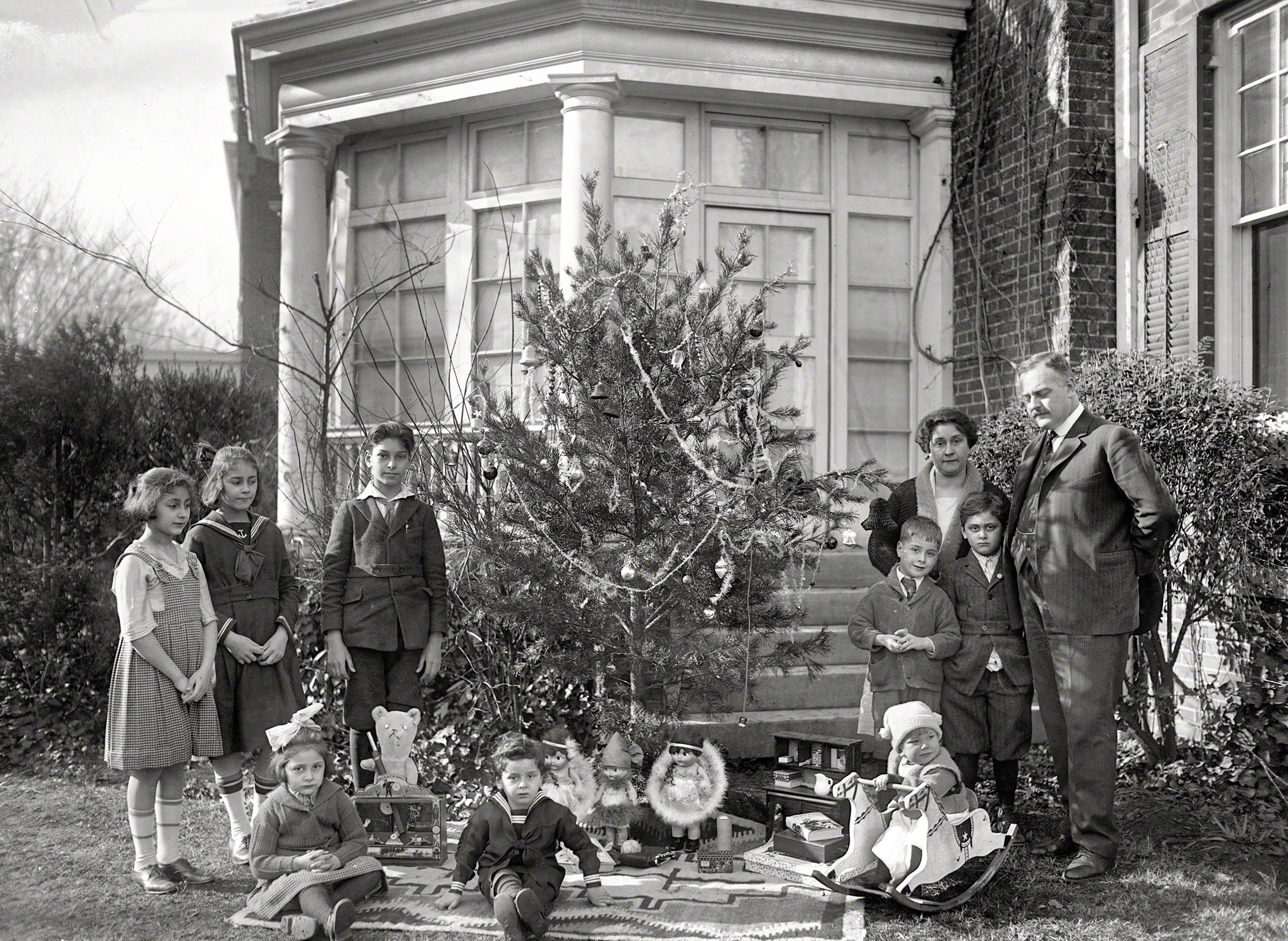 Dr. Bianchi family in New York, 1920. Bianchi was the Guatemalan Ambassador to the US in 1920.